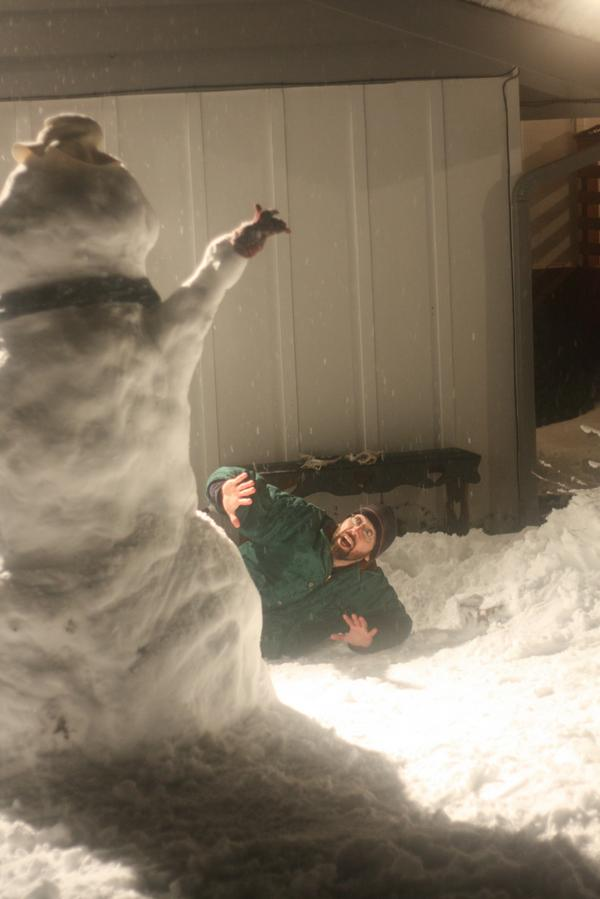 Snowmen bring out the kid in adults.